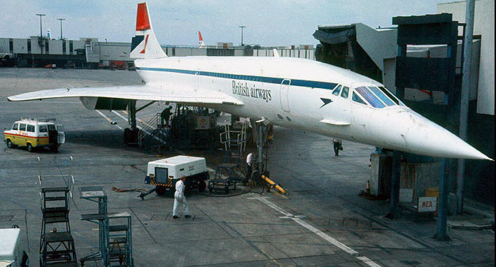 British Airways Concorde G-BOAC, Heathrow, London, England - [photo by P.B.Toman]